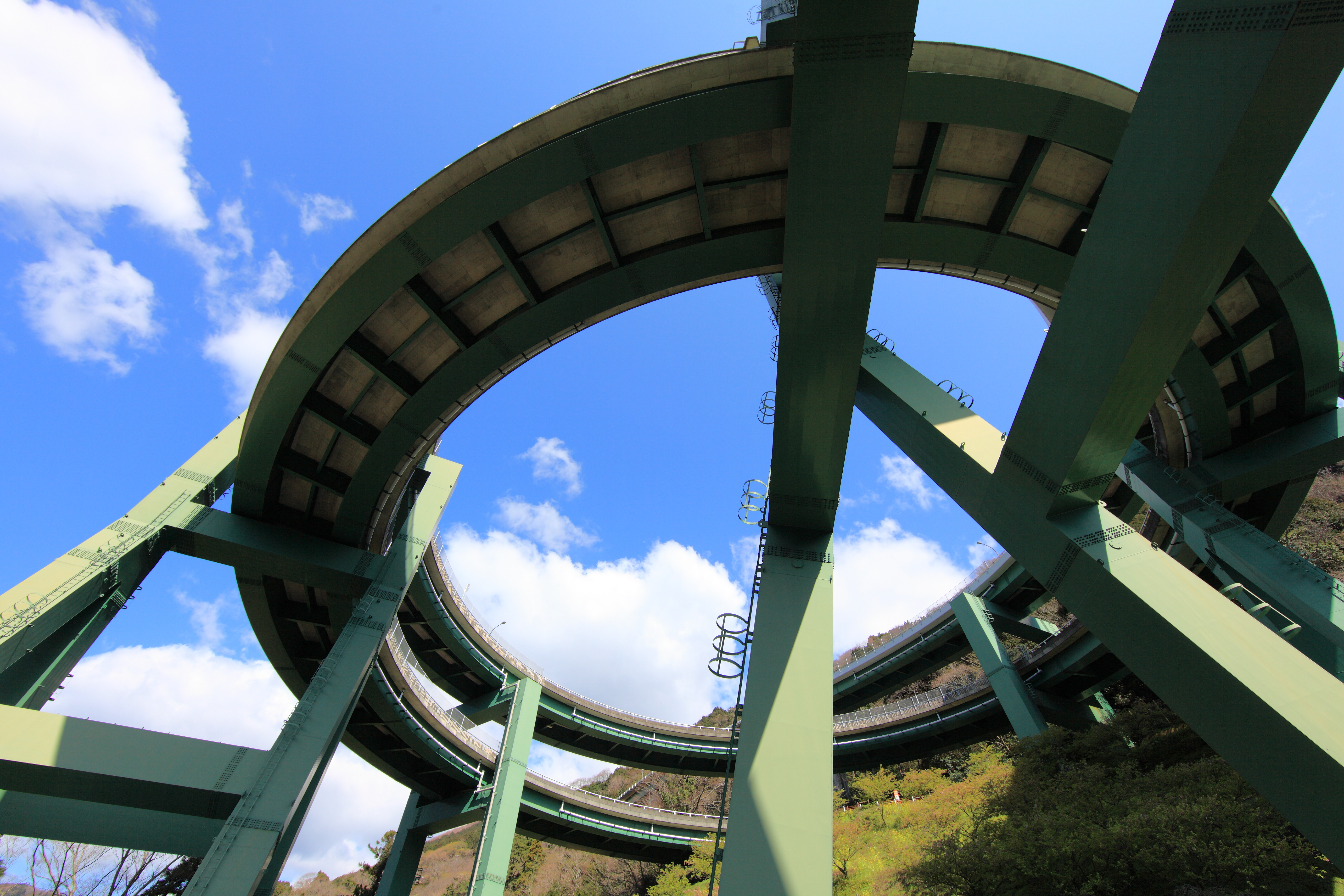 The Kawazu loop bridge in Kamo-gun, Shizuoka Prefecture, Japan